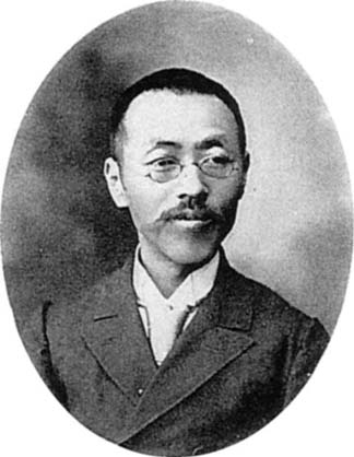 T. Nakamura, Professor of Architecture.